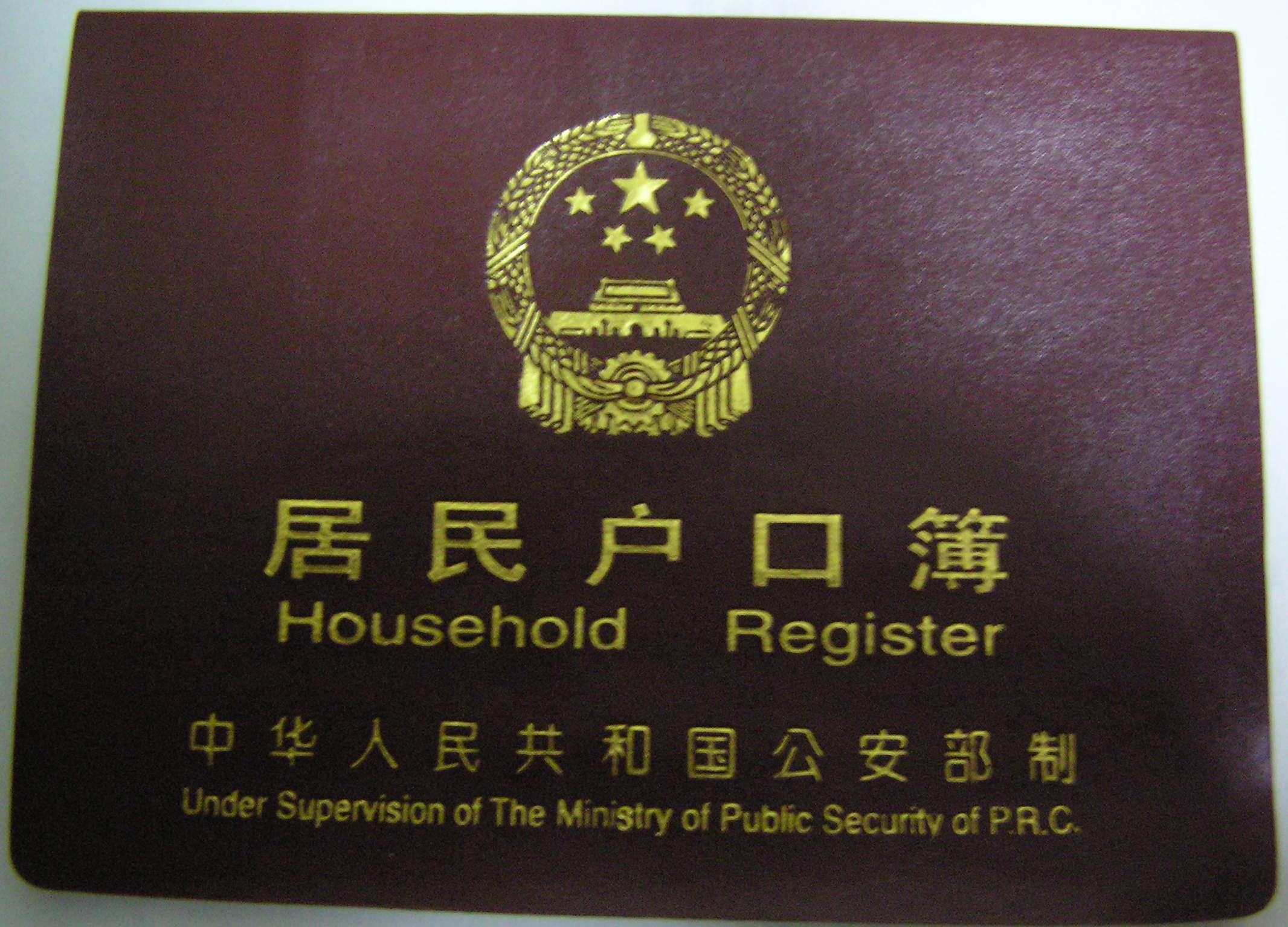 Hukou certificate of P.R.C. full textzhen居民户口簿中华人民共和国公安部制Household RegisterUnder Supervision of The Ministry of Public Security of P.R.C.